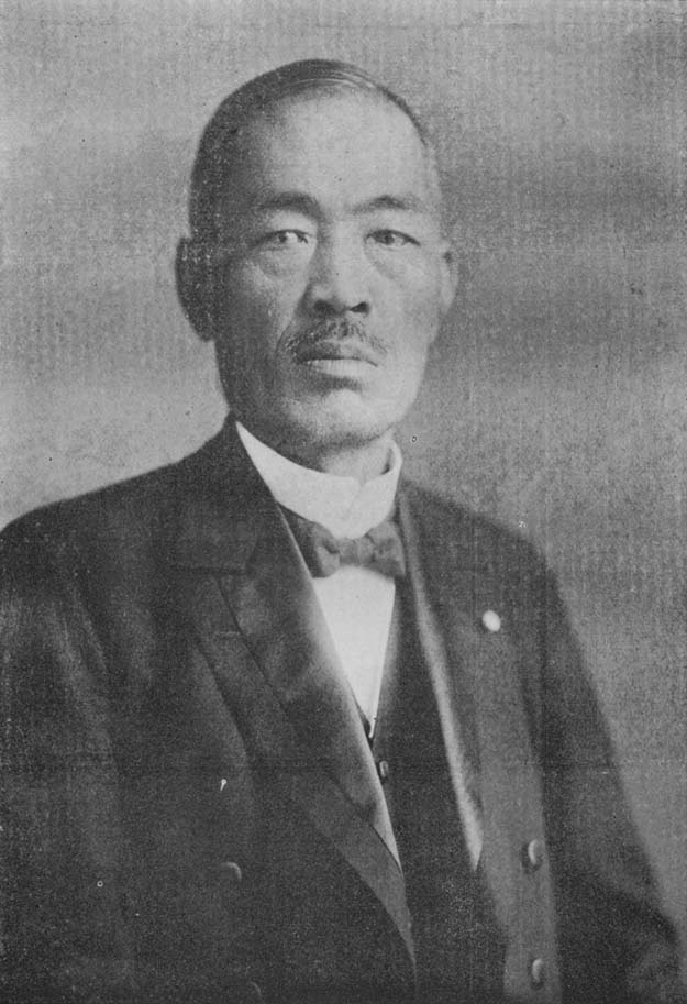 Machida Noribumi, taken in commemoration of his 70th birthday (October 1925).